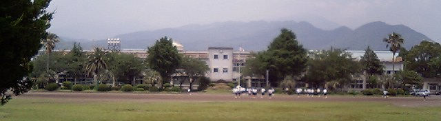 Daiichi Kanoya Junior High School in May 2004 (Kanoya City, Kagoshima, Japan)